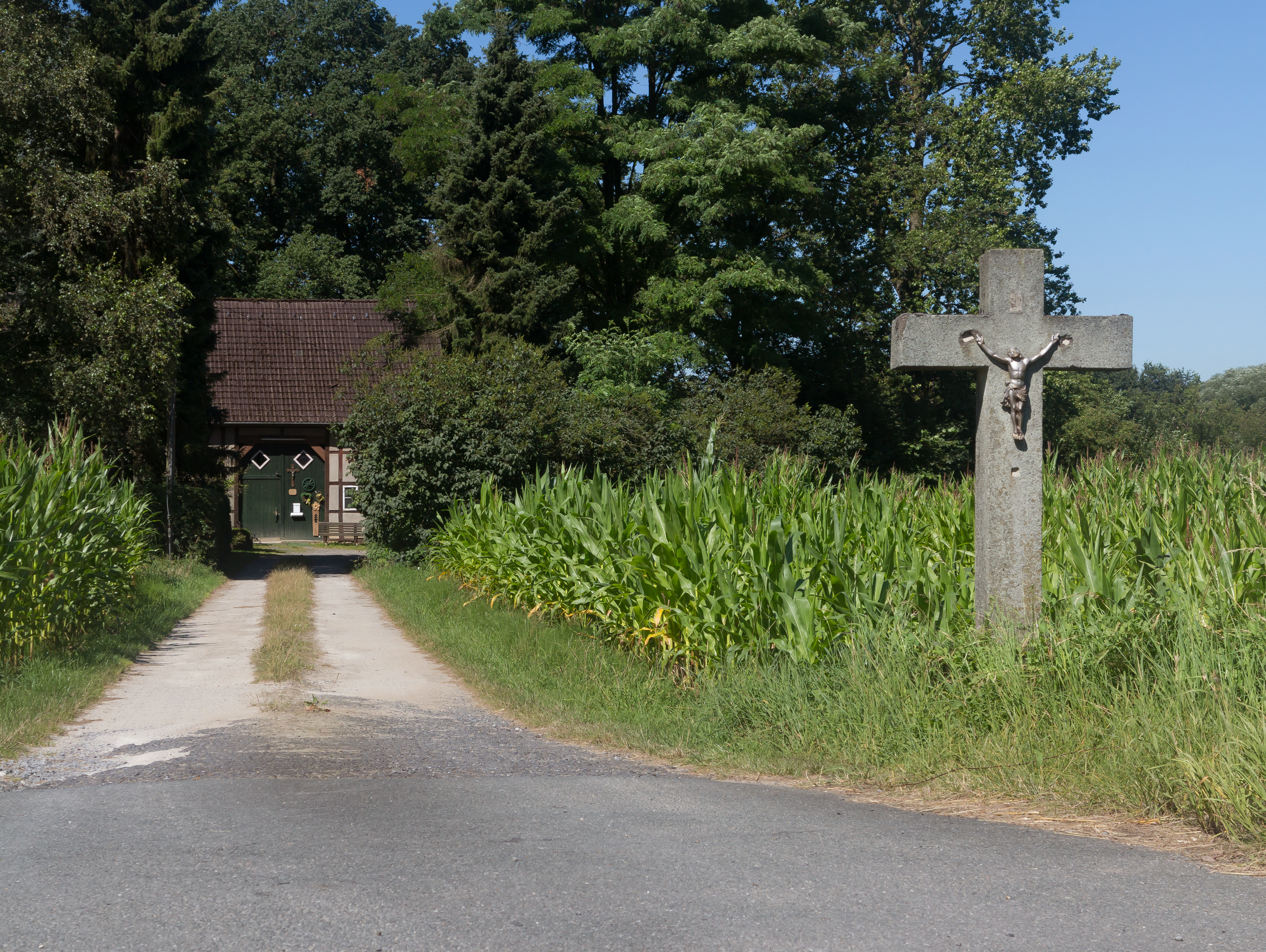 Marl, Christian cross near der Hertener Strasse